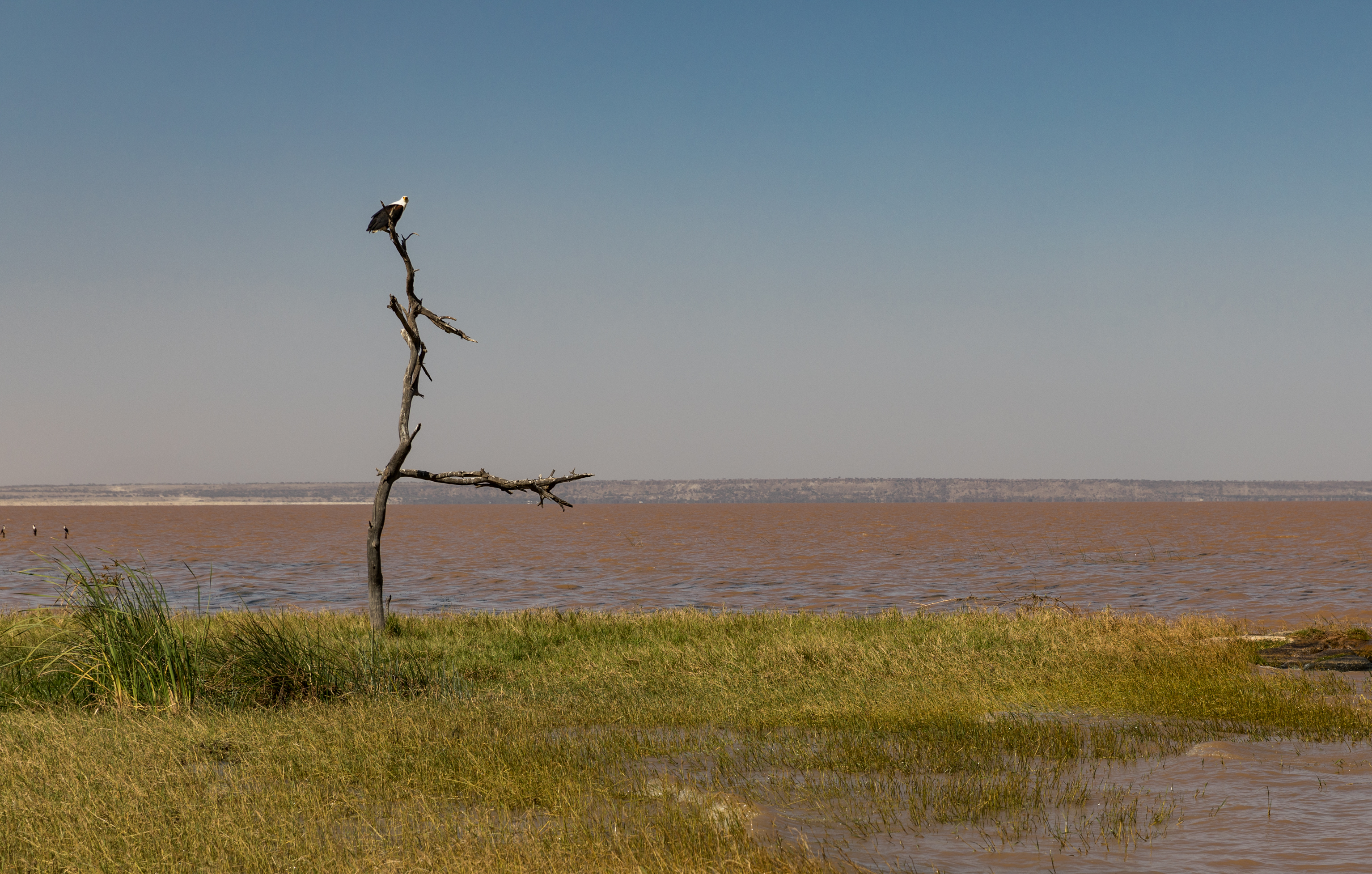 Lake Langano in Oromia, Ethiopia. Water is brown-reddish due to the richness of minerals.